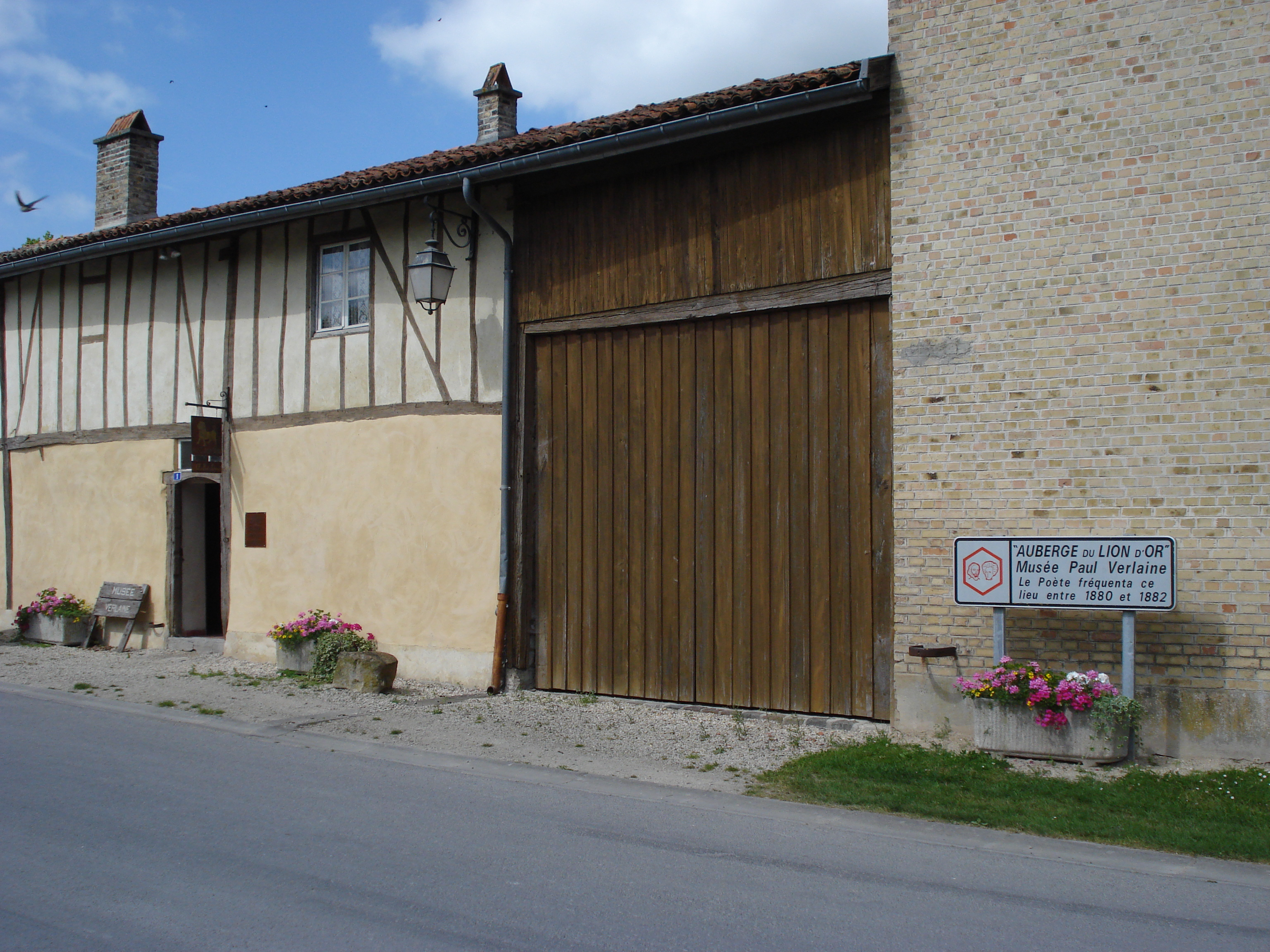 Juniville, Musee Verlaine.